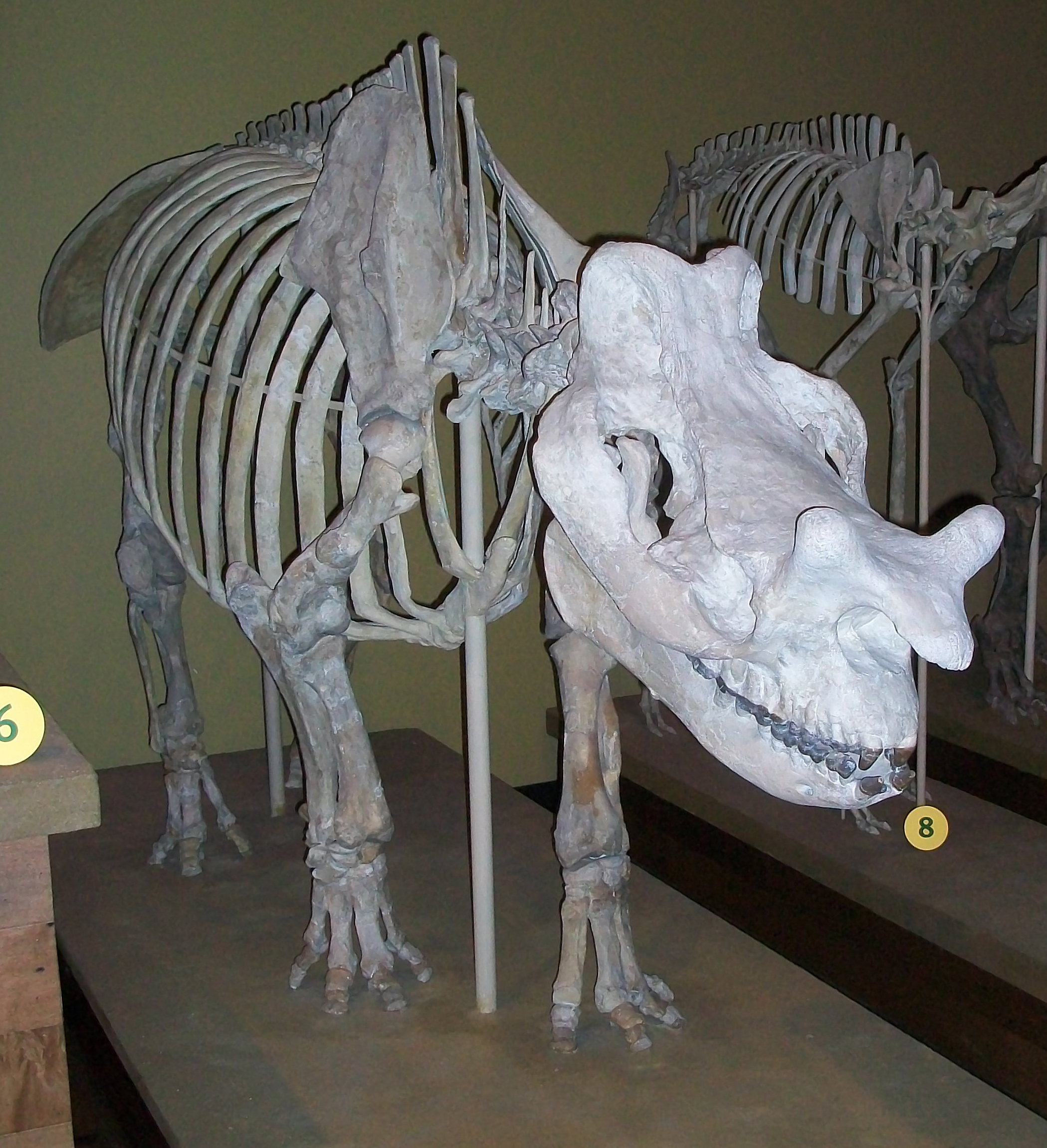 Mounted skeleton of Megacerops sp. in the Field Museum of Natural History.